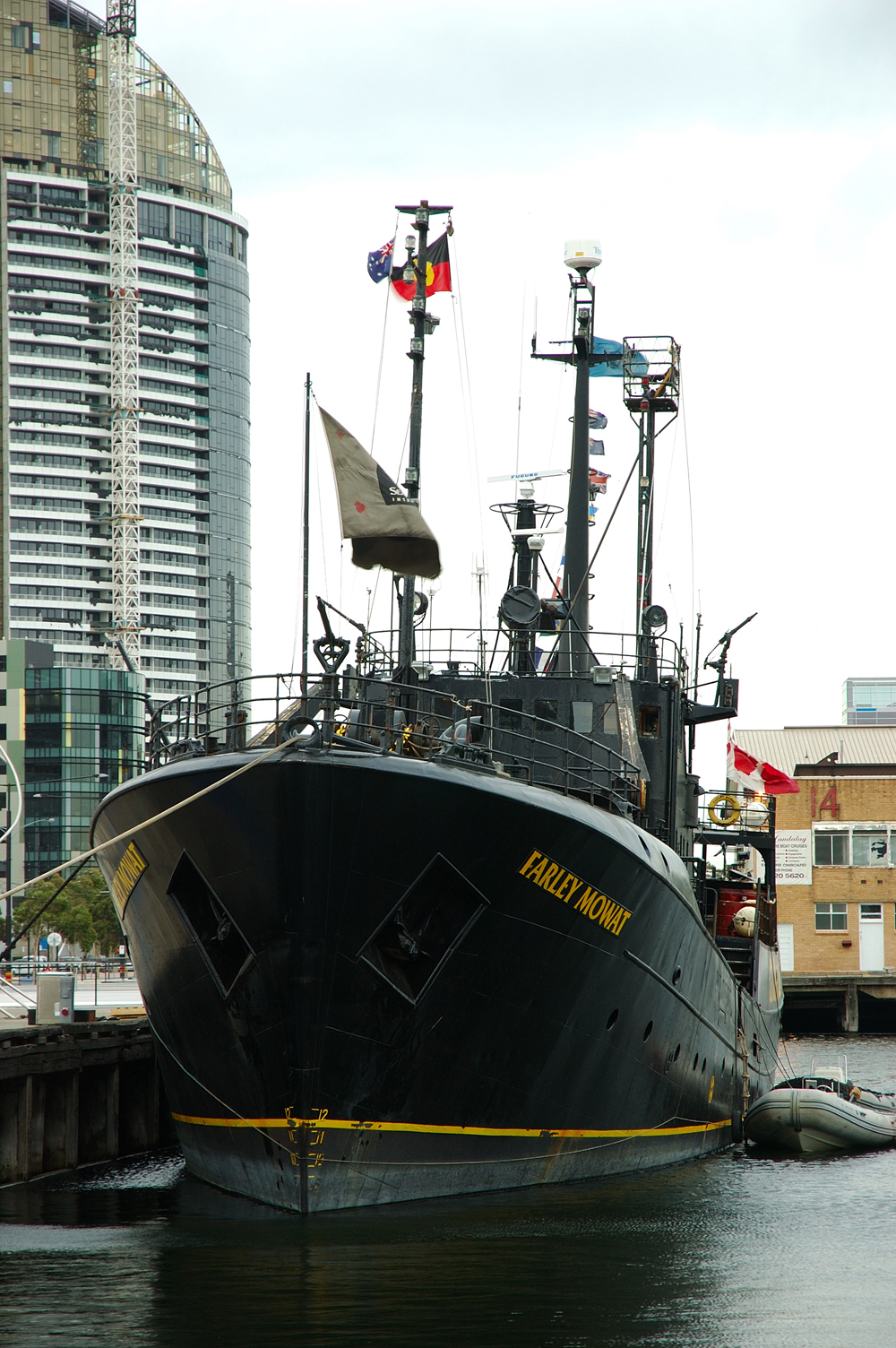 Farley Mowat. I took this at Docklands, Melbourne, Australia in 2005.